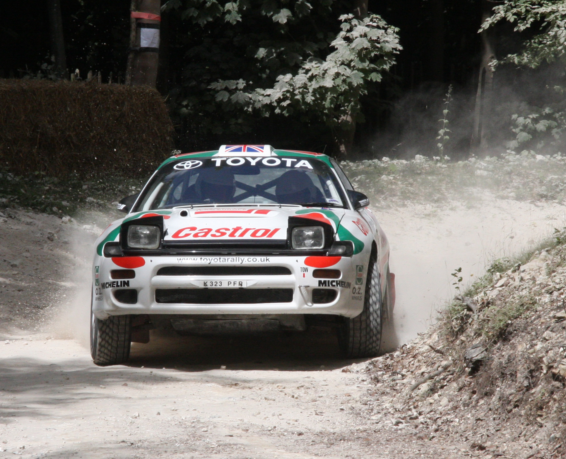 Toyota Celica GT-Four / Turbo 4WD rally car.